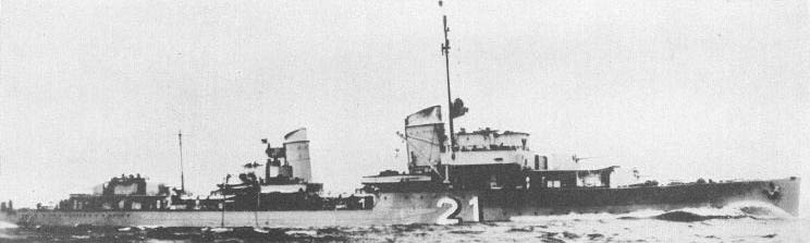 Destroyer Z5 Paul Jacobi, booklet for identification of ships, published by the Division of Naval Inteligence of the Navy Department of the United States.